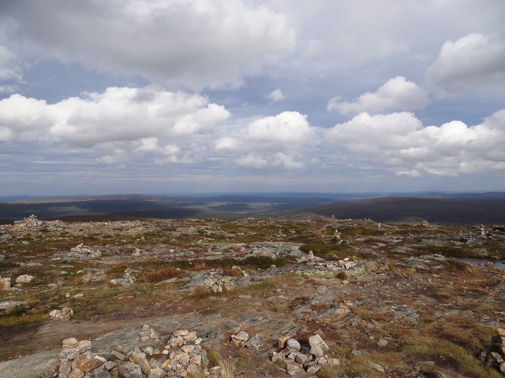 Kiilopää 2011